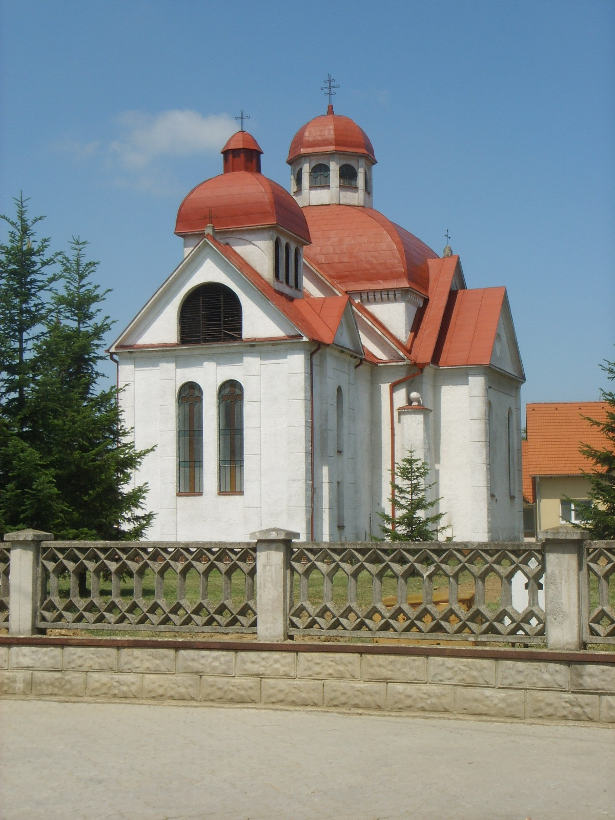 Greek Catholic church Dlhé Klčovo